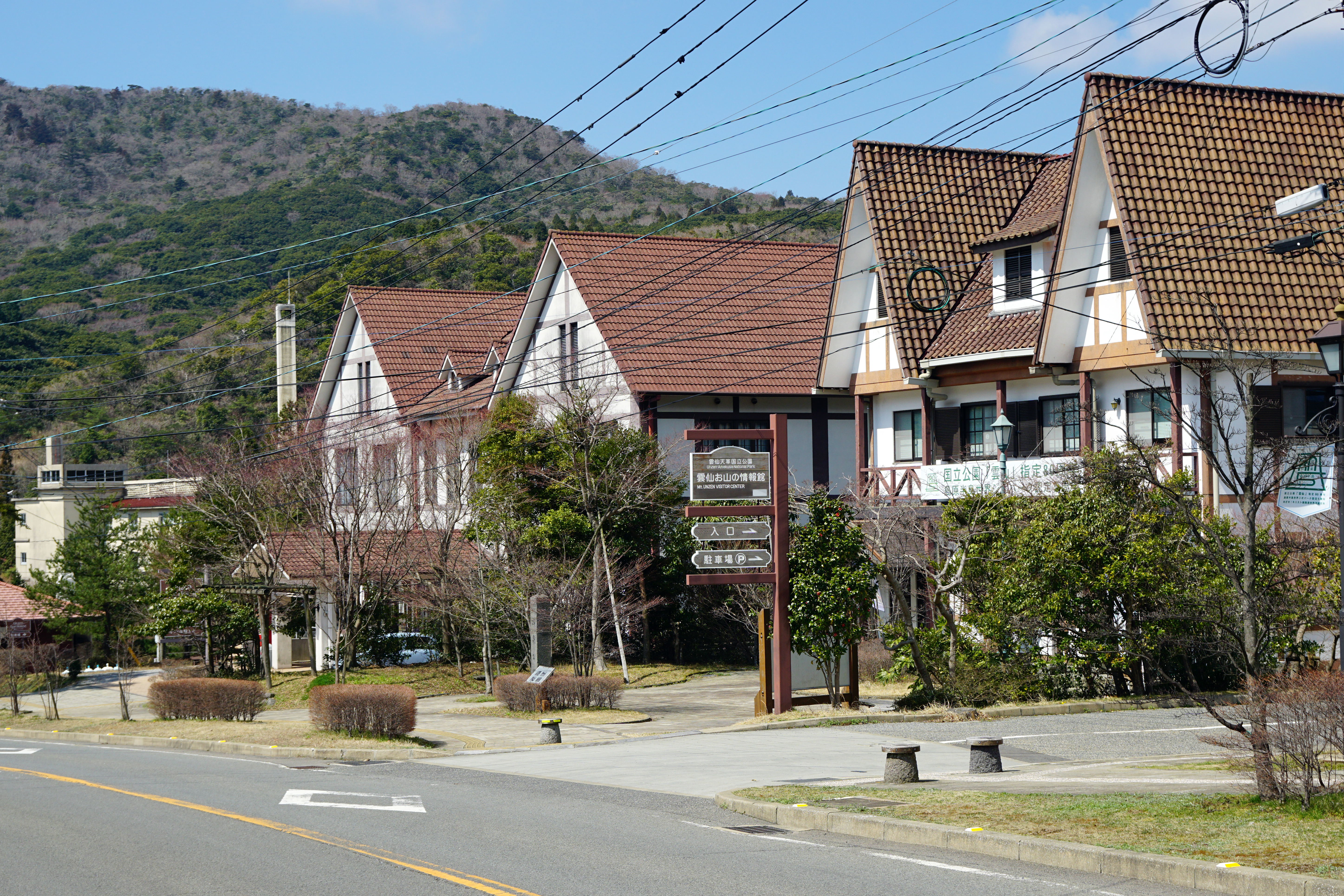 Unzen Onsen town in Unzen City, Nagasaki prefecture, Japan.